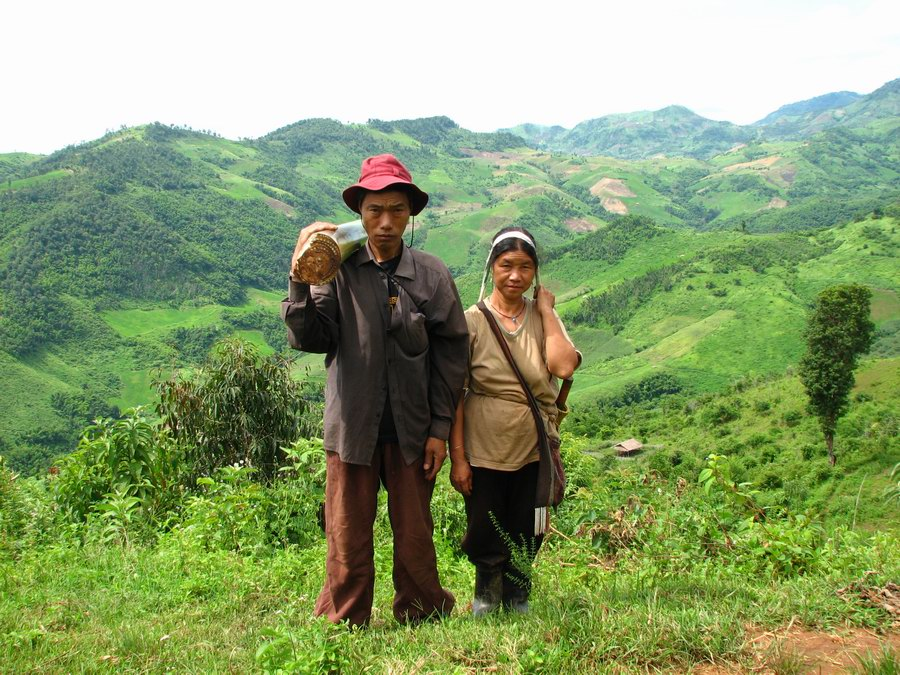 Akha couple in northern Thailand. The husband is carrying the stem of a banana-plant, which will be fed to their pigs.